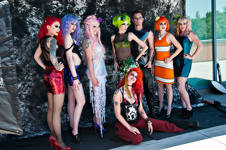 Geek Fashion Show at the 2013 Big Wow! ComicFest in San Jose, California. Modelling wearing Sea Punk clothing by The Mermaid Atlantis.